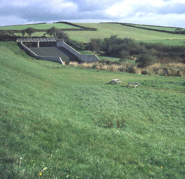 Lower Tamar Lake spillway From near the car park looking north-east to the spillway.